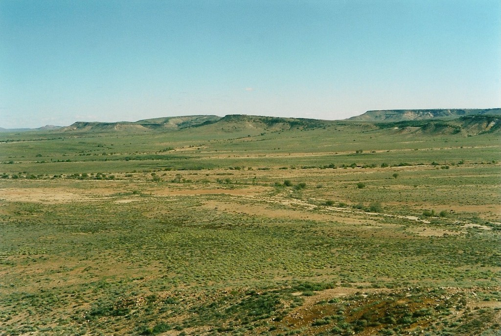 Sturt_National_Park8_Jump_Up_Range after rain, from near Olive Downs Station